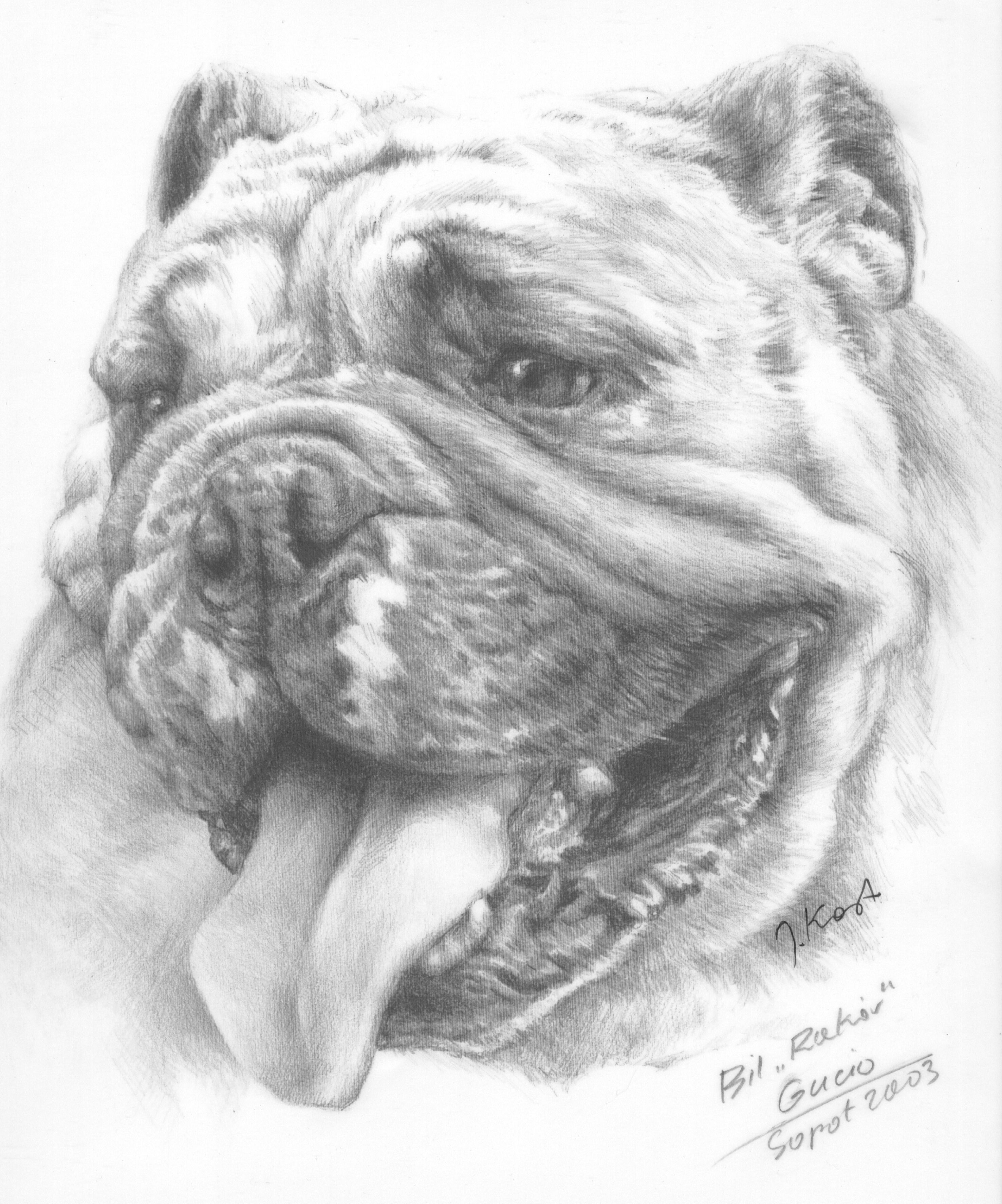 English bulldog BIL Gucio (breeding standard), from the english bulldog breeder "Bachmat" from Bydgoszcz, during showcase in Sopot.